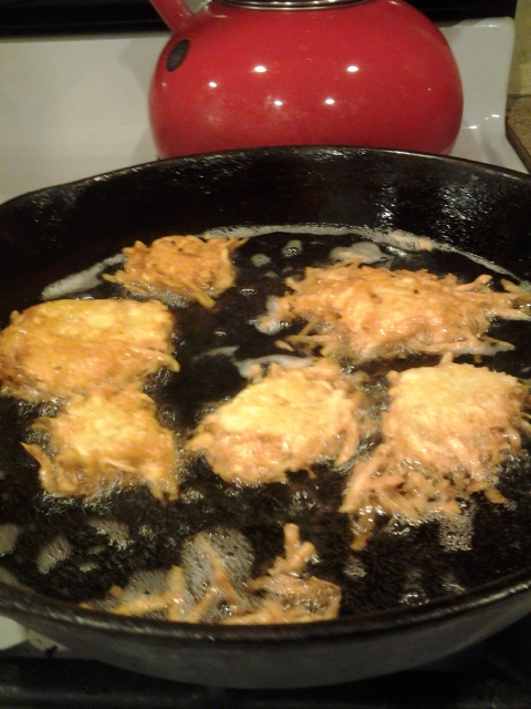 Latkes (potato pancakes) frying in a cast-iron skillet